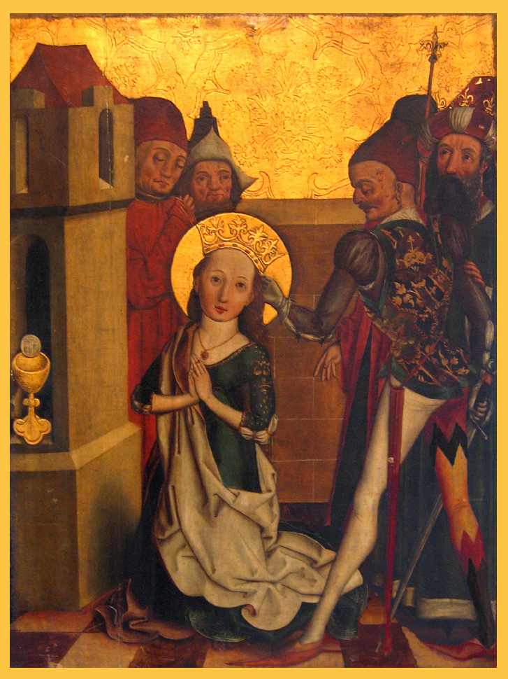 St-Barbara martyrised, german art, XVI-th cent.